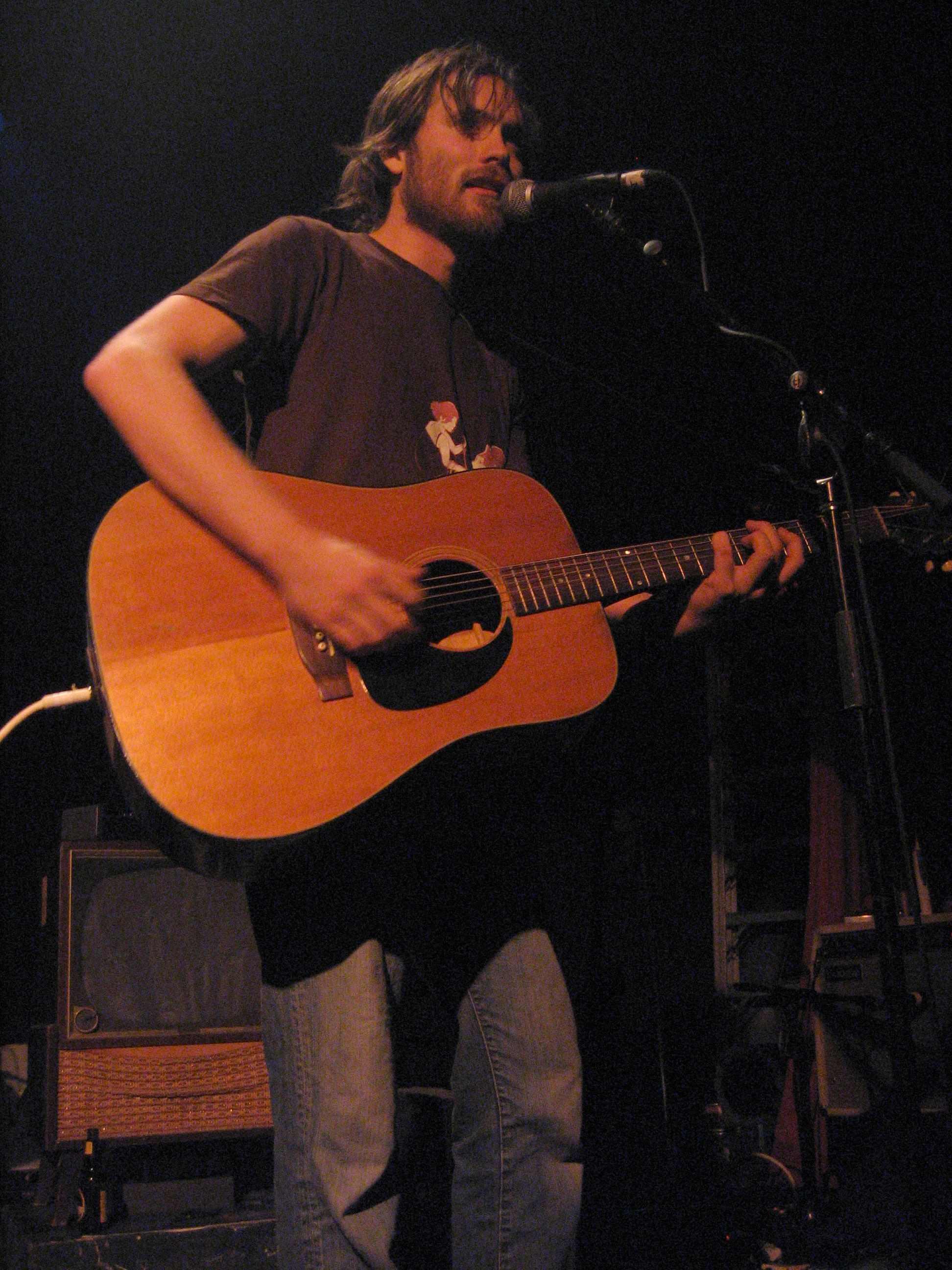 Brian Borcherdt performing in Montreal, Quebec, Canada